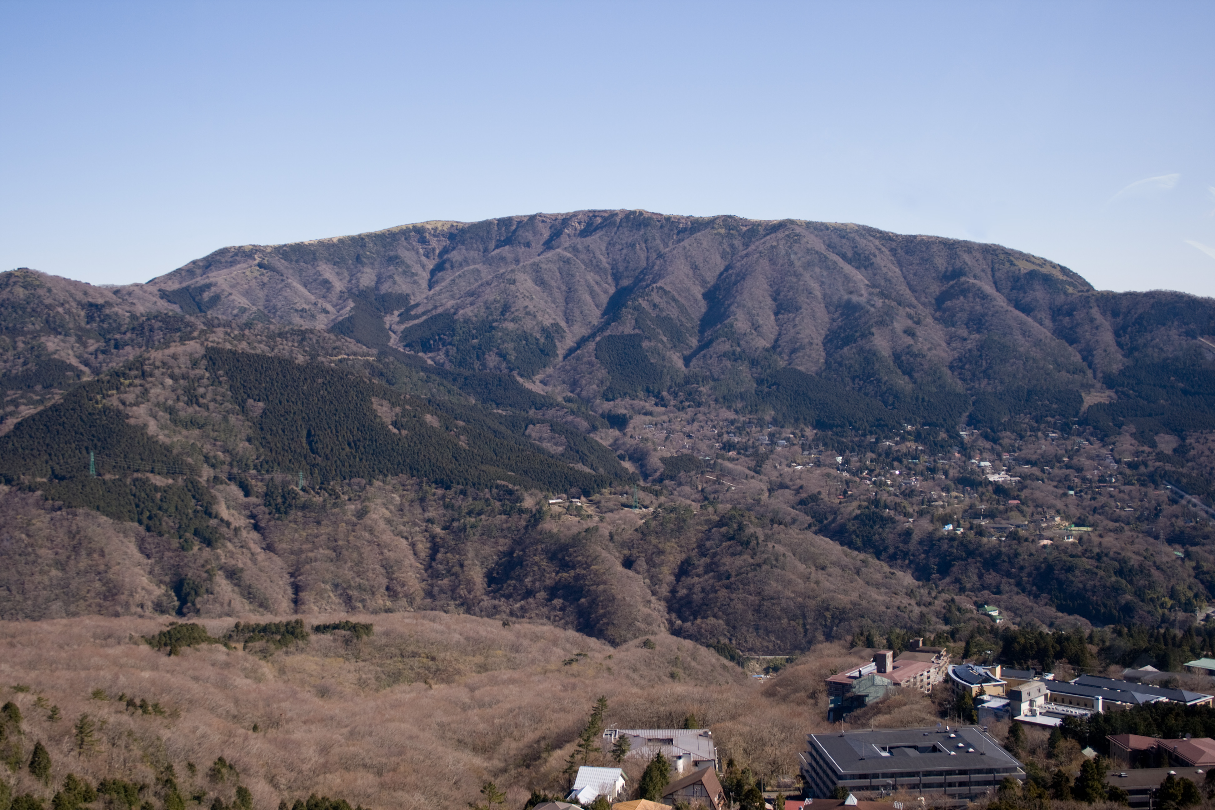 Mt.Myojingatake, Hakone town, Kanagawa pref., Japan.